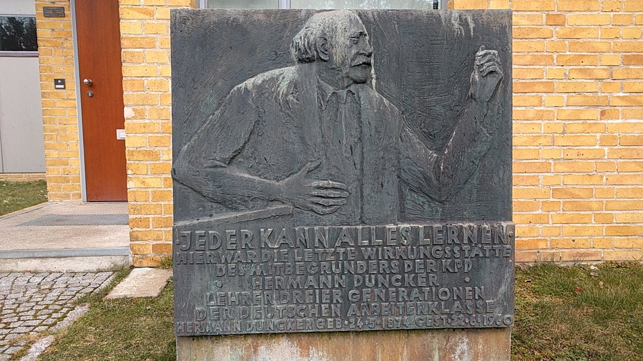 Inscription: Everyone can learn everything. Here was the last workplace of the co-founder of the KPD (Communist Party of Germany) Hermann Duncker, teacher of three generations of the German working class. Hermann Duncker, born 24.05.1874, died 22.06.1960.